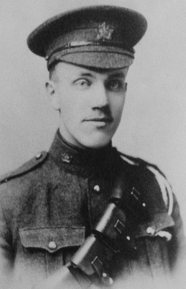 Photo of Pte Clifford E. Rogers